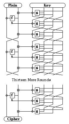 Overall structure of the LOKI97 block cipher. This file was created by Dr Lawrie Brown, co-designer of the LOKI97 block cipher.